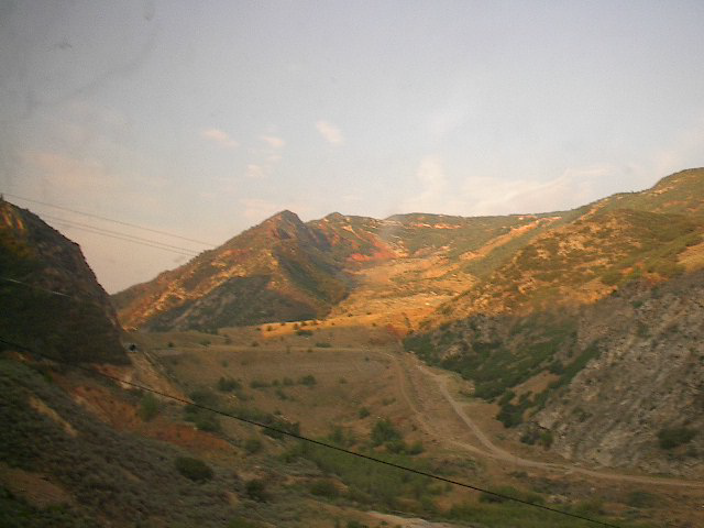 The "dam" formed by a 1983 massive landslide (slump) which created a reservoir that flooded the town of Thistle and the scar from where the mountain formerly rested. This picture was taken from a window on the California Zephyr just as the train was entering the the Billies Mountain tunnel. Also visible in the photograph is a dirt road made from the original railroad alignment up to the dam and a spillway created to ease pressure on the forming dam. Prior to 1983 a photograph from this vantage point would show a free flowing Spanish Fork River and a few buildings.